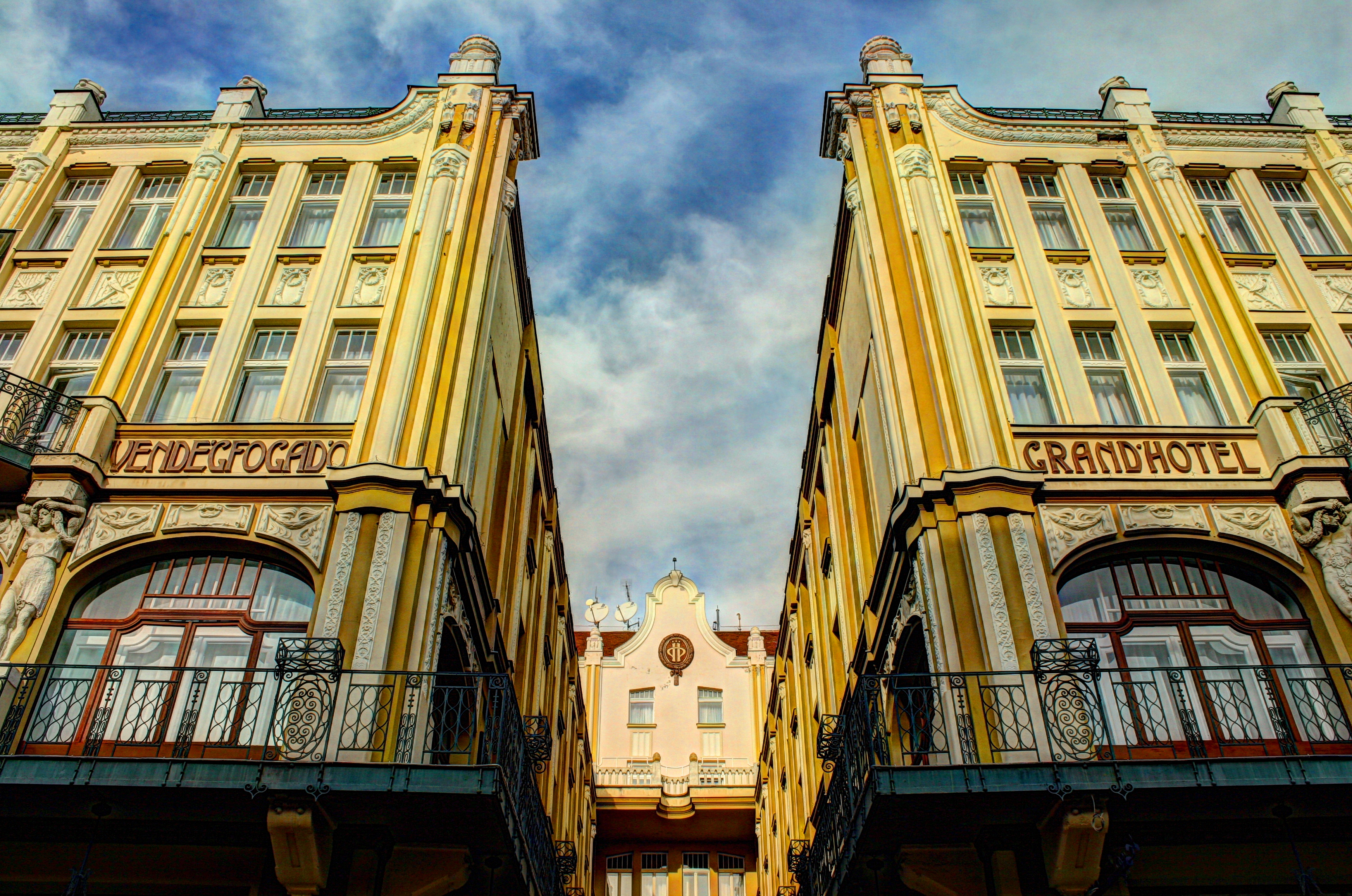 Grand Hotel Palatinus, Király Street, Pécs